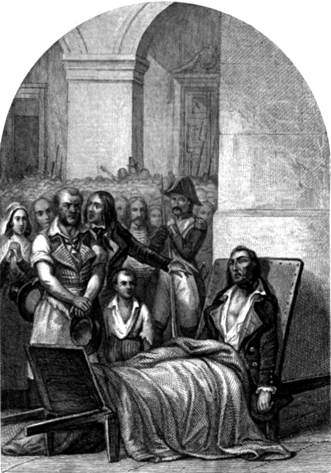 Jean-Charles Pichegru's Body exposed after his Suicide in the Temple Prison